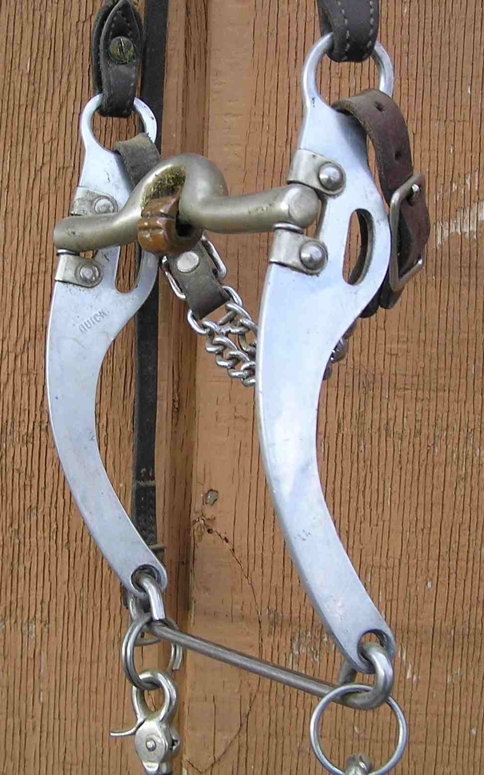 A low port curb bit with a roller or cricket and loose jaw shanks, "Quick" brand bit